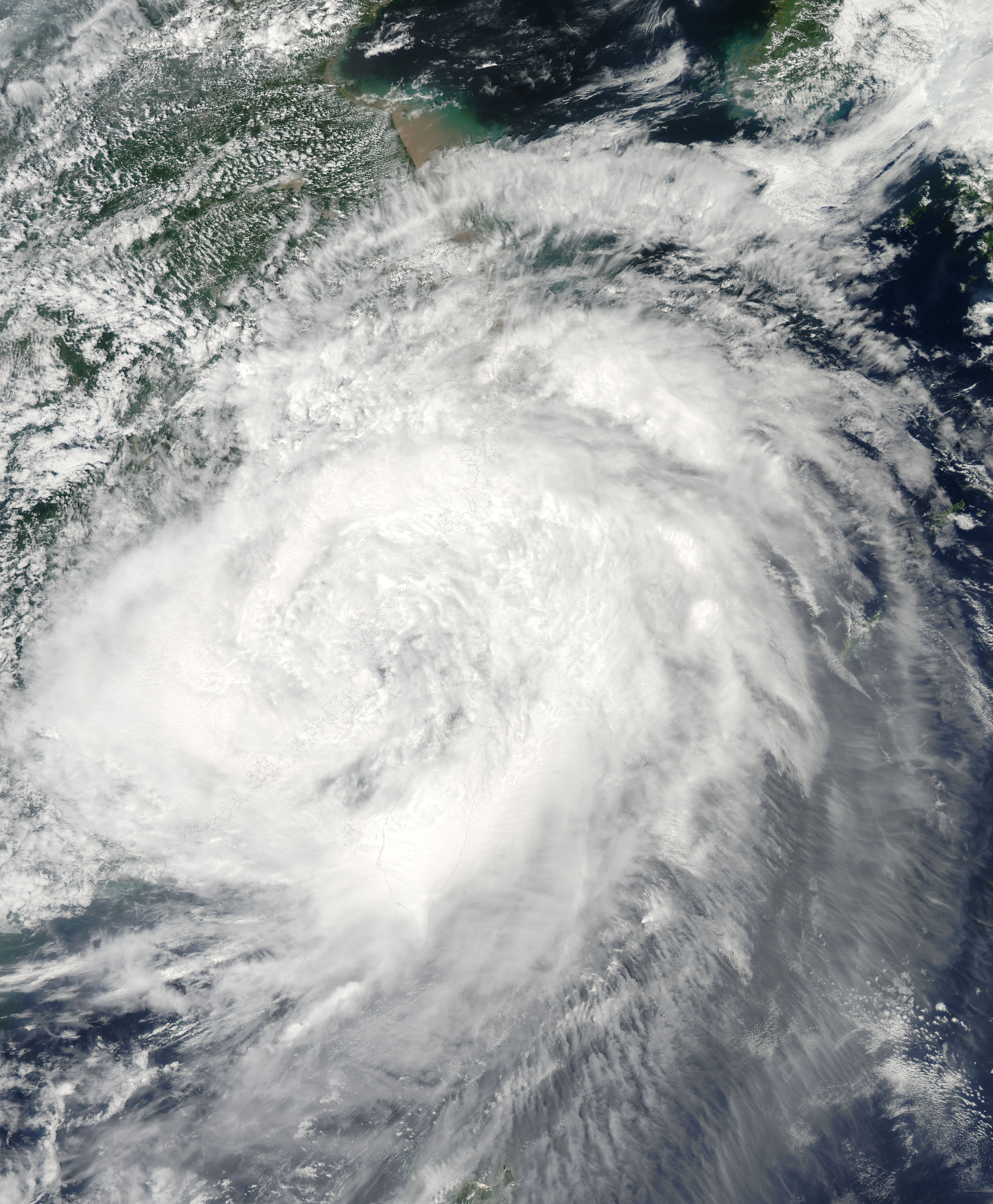 Weakened after crossing the mountainous island of Taiwan, Typhoon Morakot moved ashore over southern China on August 9, 2009. This image, captured by the Moderate Resolution Imaging Spectroradiometer (MODIS) on NASA’s Aqua satellite at 1:15 p.m., local time (5:15 UTC) on August 9, shows the center of the storm coming ashore over China. Morakot exhibits a loose spiral shape without the distinctive bands of clouds or eye evident in stronger storms. At the time this image was taken, Morakot had winds of about 75 kilometers per hour (45 miles per hour or 40 knots). More damaging, however, was the storm’s intense rain. Morakot moved slowly over Taiwan, releasing a torrent of rain over the island that lasted several days. Southern Taiwan recorded a record 8 feet (244 centimeters) of rain, reported the New York Times. The rain caused flooding and landslides, one of which buried a village in Taiwan. As of August 10, thirty-seven people had been reported dead in the Philippines, Taiwan, and China, not including those affected by the landslide said the New York Times.